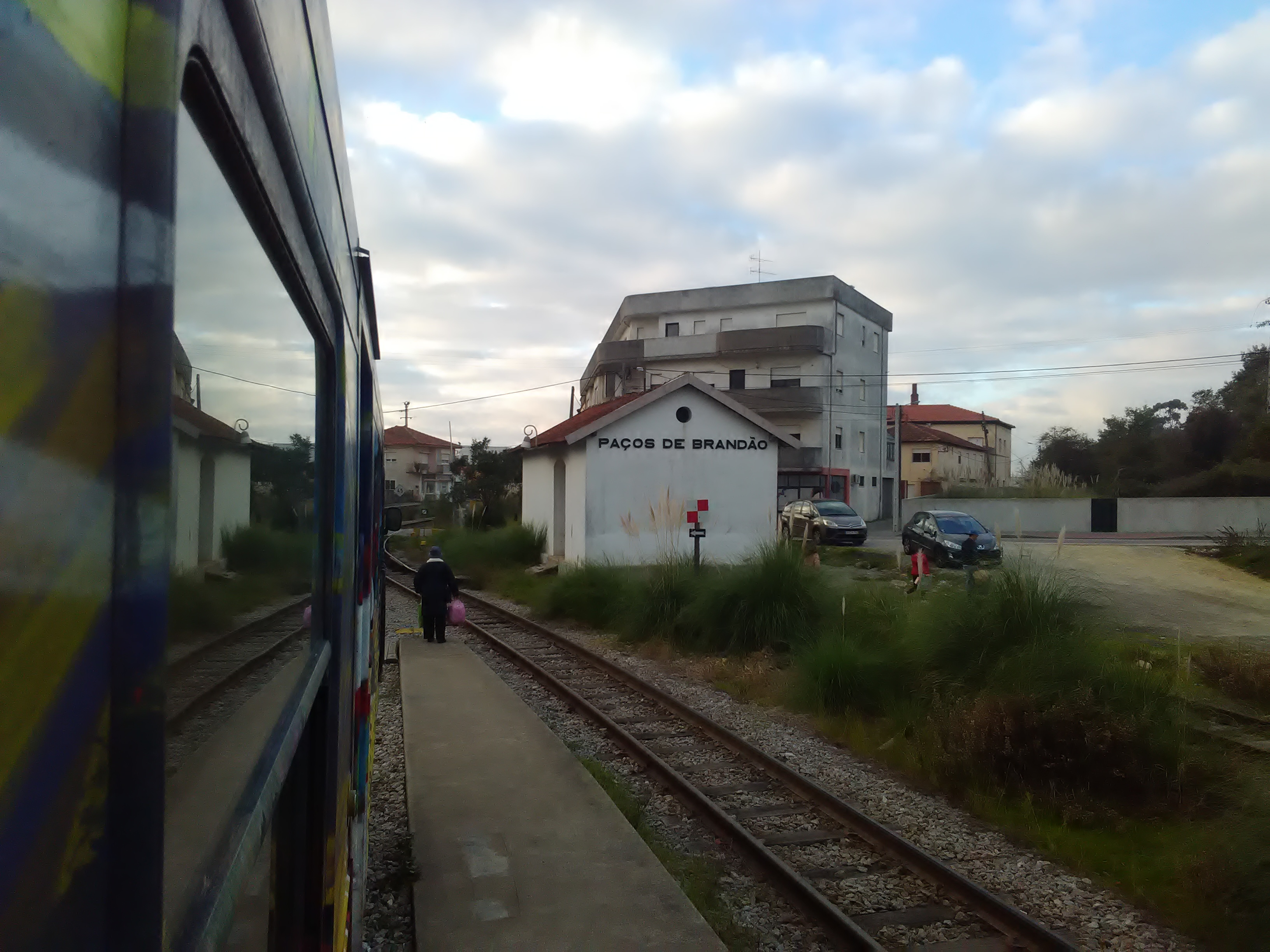 Paços de Brandão station, Vouga Railway (Portugal)